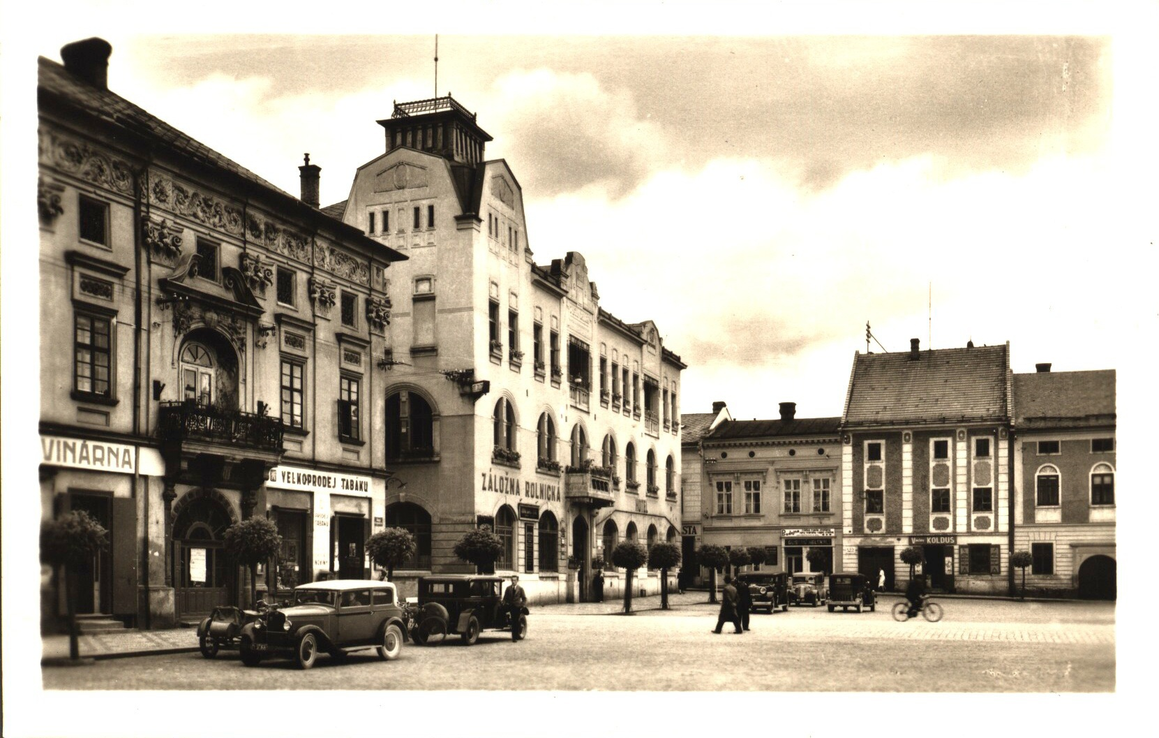 Přemysl Otakar Square in Litovel. Lang's House on the left and a savings bank and a hotel in the centre. View from the south-west.